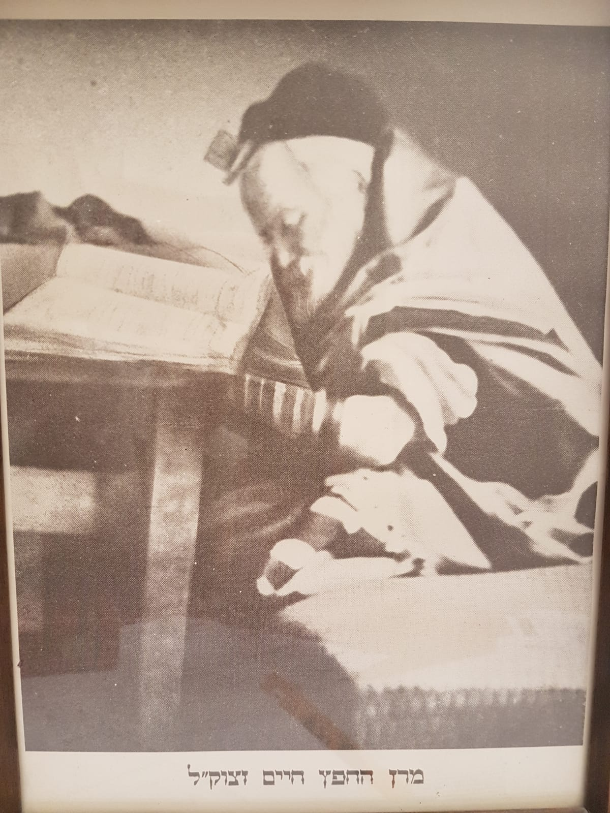 רבינו ישראל מאיר קאגאן החפץ חיים